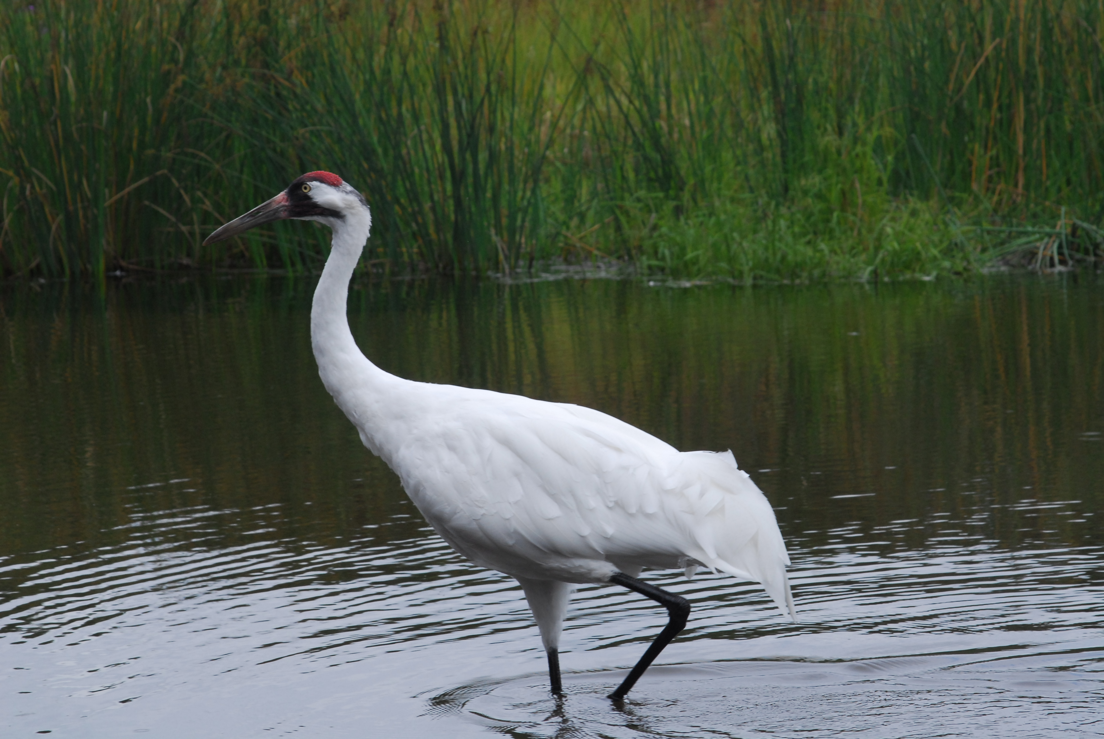 Baraboo Wisconsin Crane Zoo